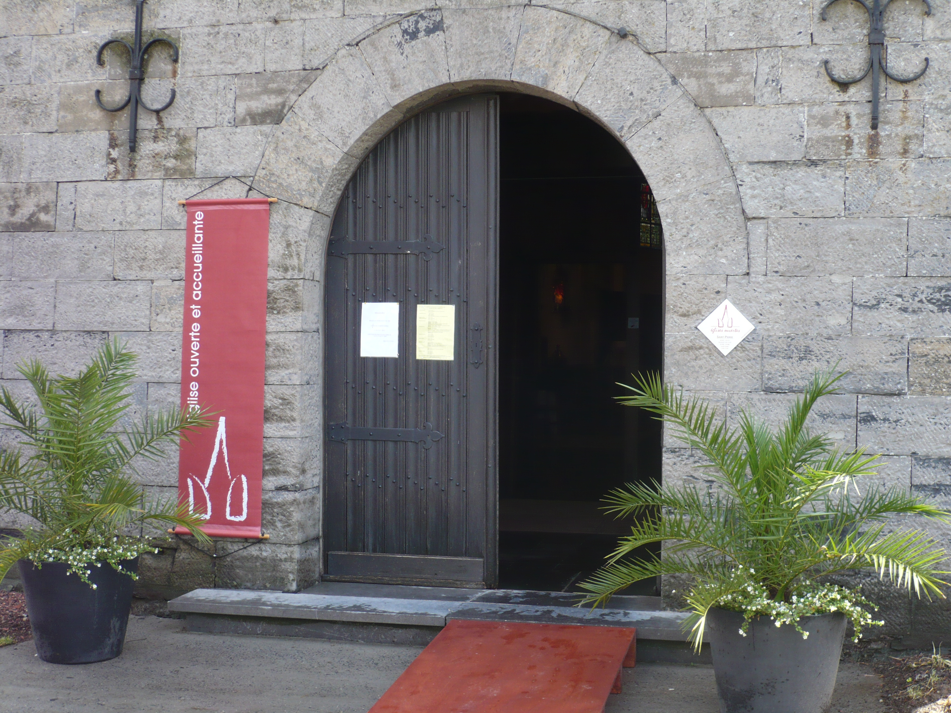 Entrance of the church St-Pierre church of Mourcourt, see Églises ouvertes